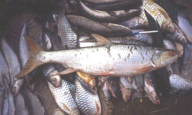 Giant Salmon Carps in Laotian market